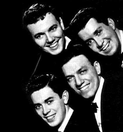 Photo of the musical group The Four Esquires.